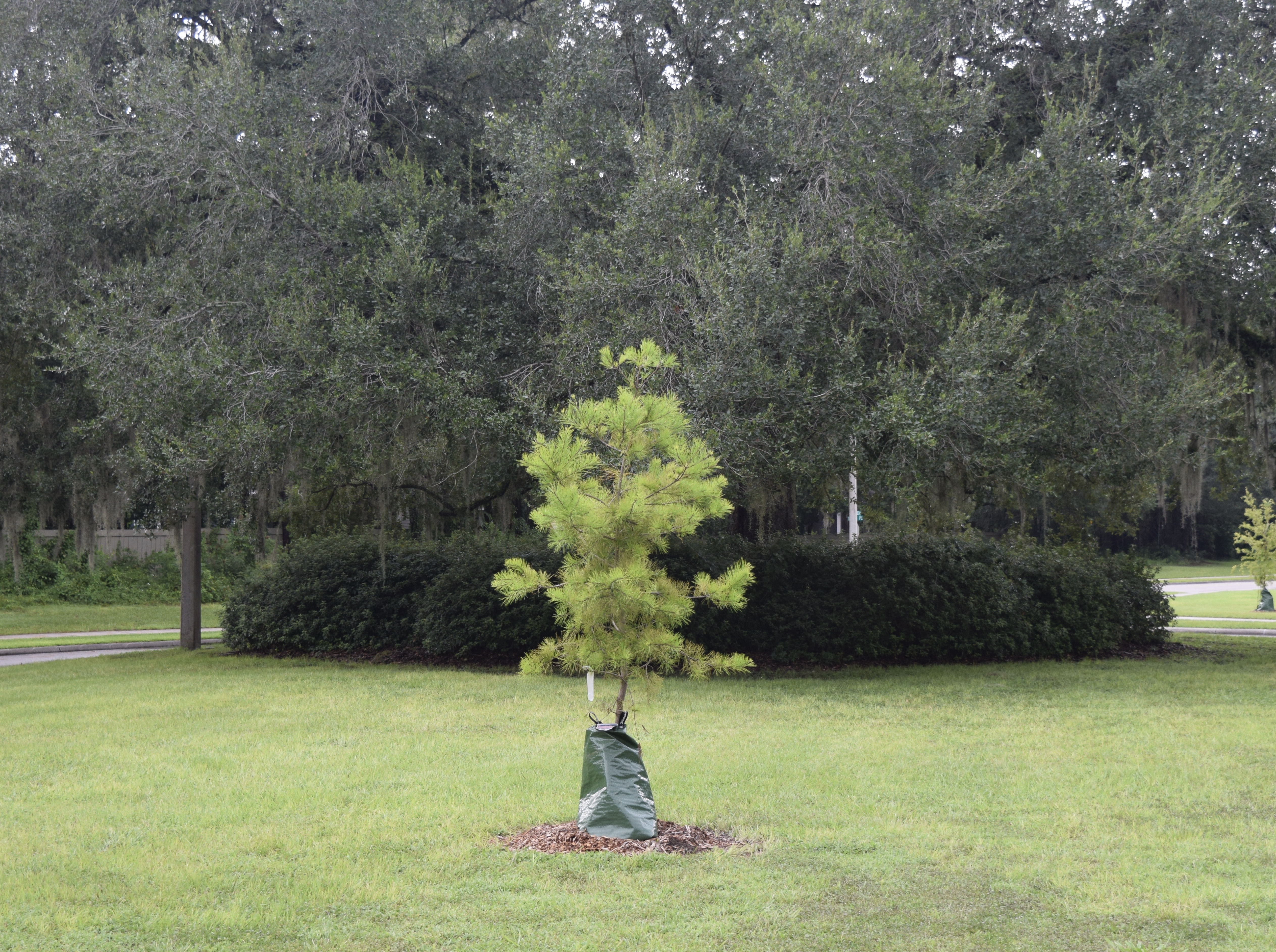 Florida tree in bag ("Tree Gator") in front of oak.